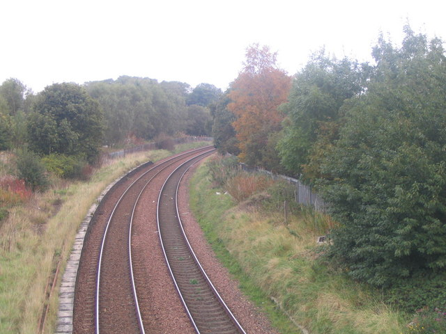 Duddingston Station Looking north-east along the Edinburgh Suburban Railway, from the bridge over on Duddingston Road West, with the remains of a platform visible on the northern track.